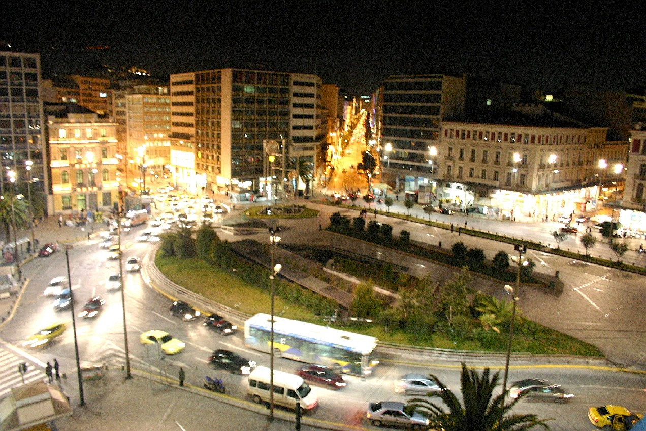 Omonoia(Omonia) Square in Athens, Greece. Night Shot.